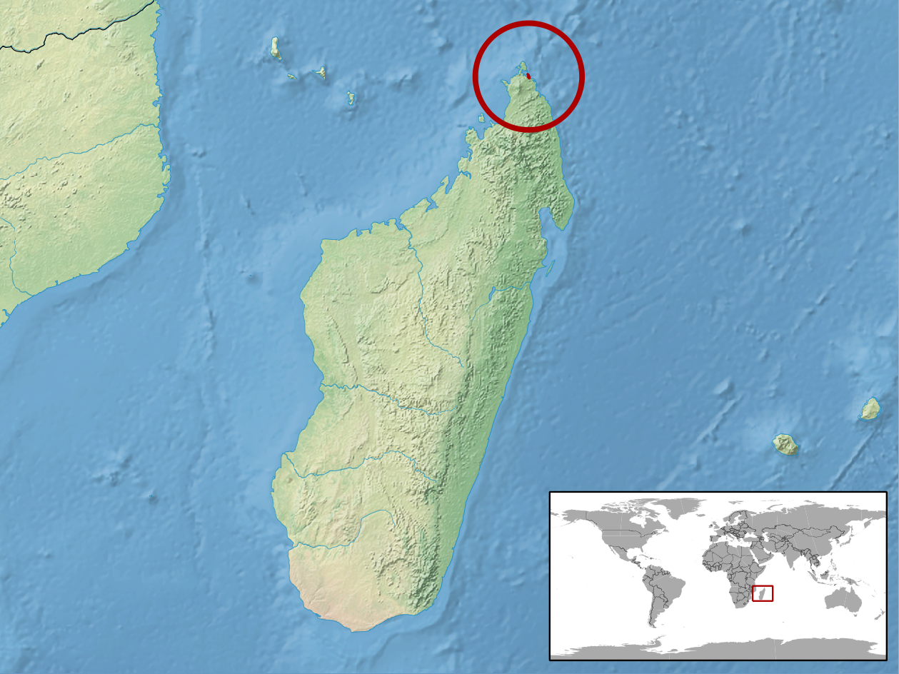 geographic distribution of Paracontias fasika